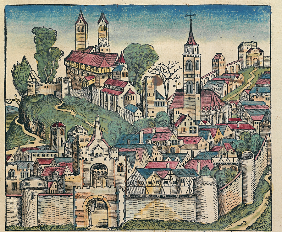 Woodcut of Naples from the Nuremberg Chronicle